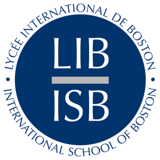 ISB Logo